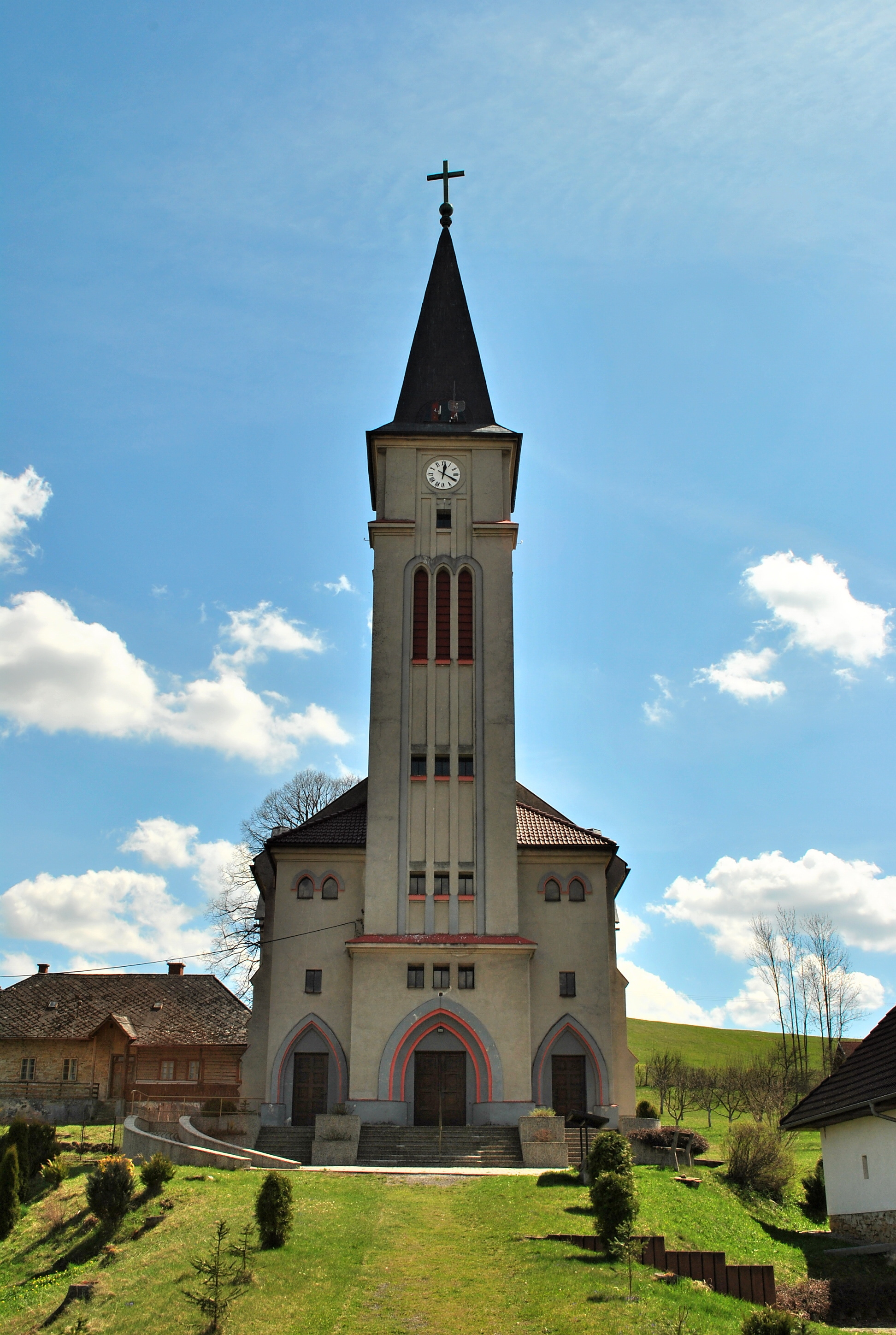 Liptovský Trnovec - Evangelical church